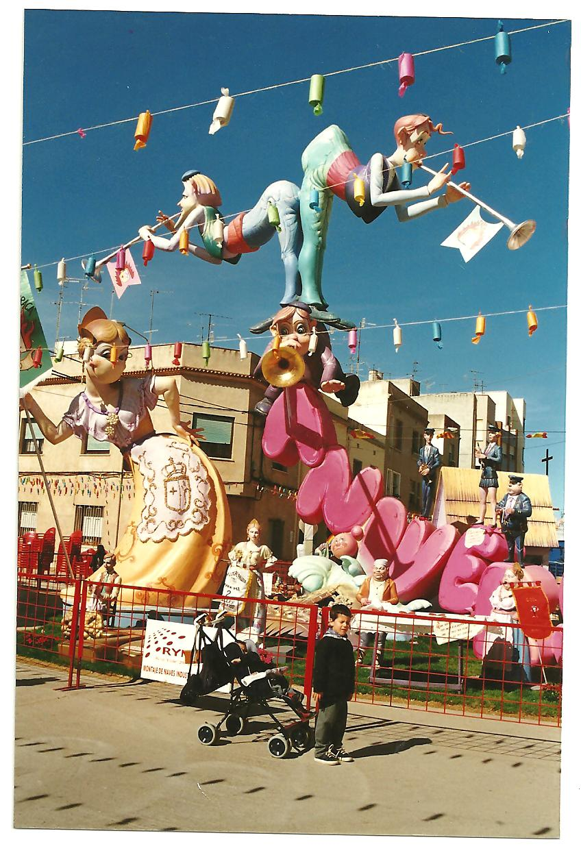 Falla la Barraca 2001